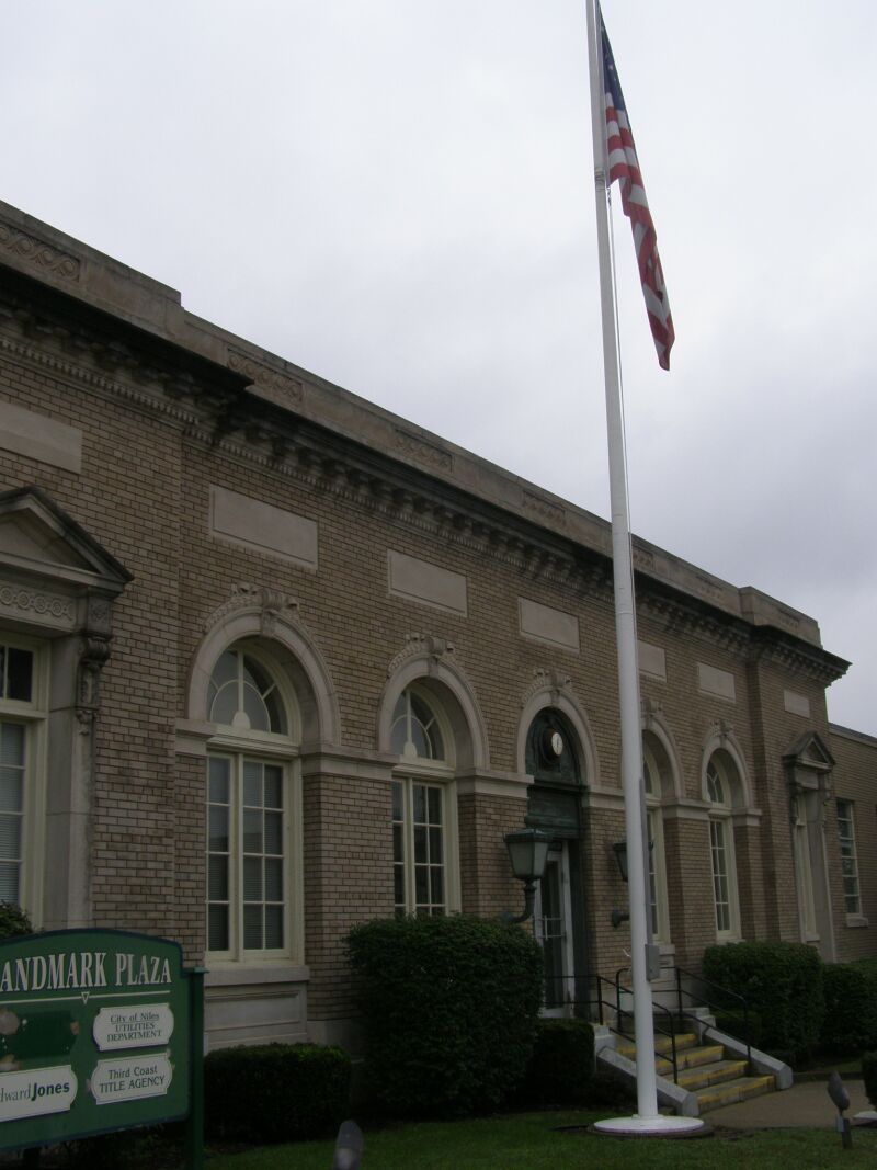 Old Post Office, Niles Michigan, on Main Street